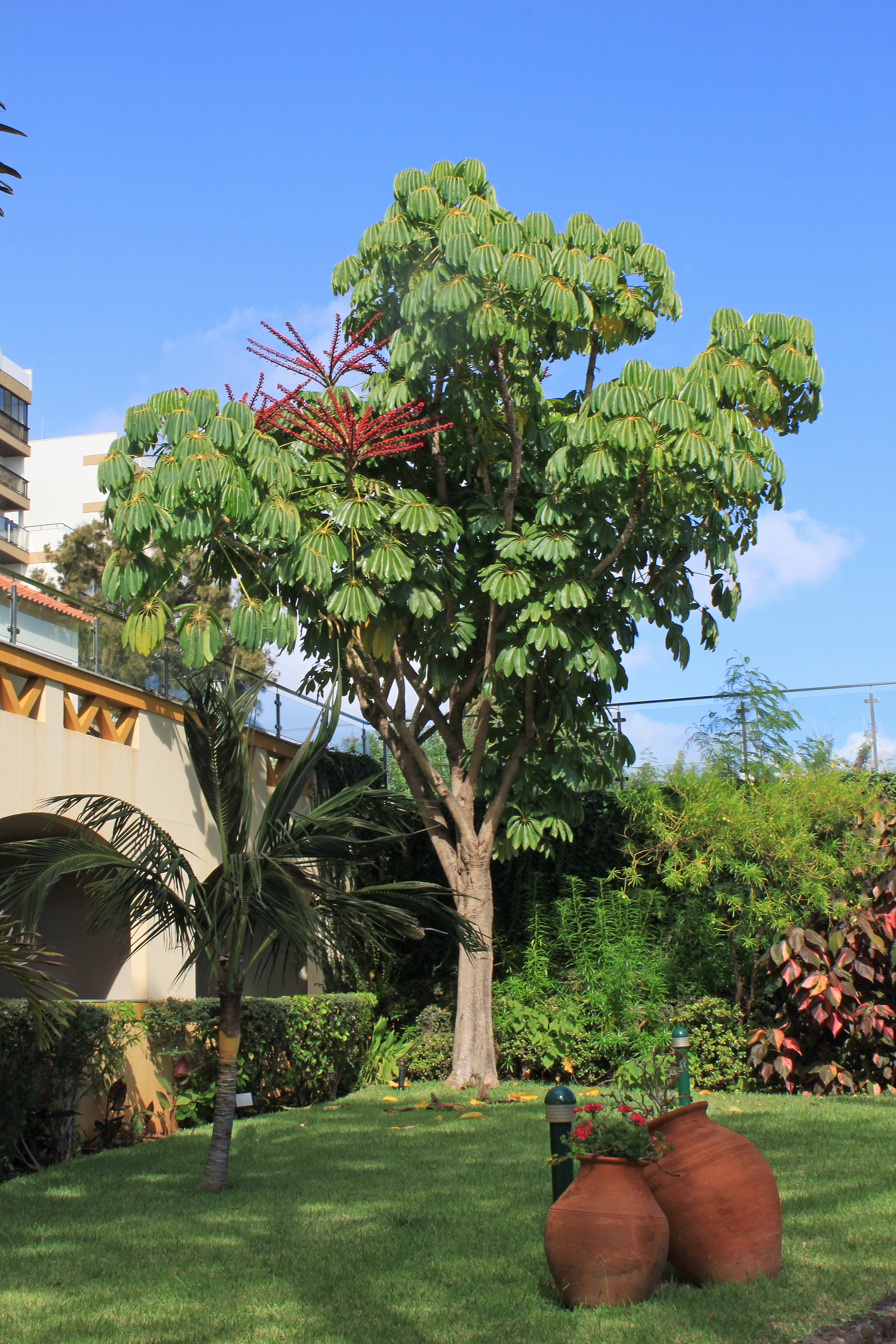 Umbrella tree, Octopus tree; habitus; Funchal, Madeira, Portugal.